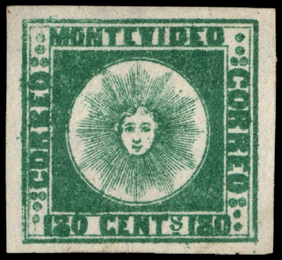 Uruguay 1858 'Sol de Montevideo' or 'Sol Doble Cifra' issue, mint. Brian Moorhouse certified, Roig expertise mark backside.